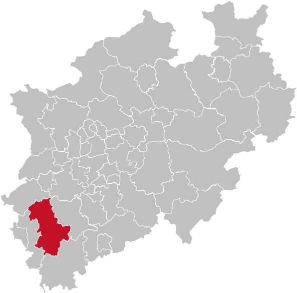 Map of Kreis Düren, a District of Northrhine-Westphalia (NRW), Germany. Red/Grey colors match the color scheme of Germany maps and information boxes in German Wikipedia. Kreis is highlighted in red. Former version of map was based upon Image:North rhine w template.png that displayed some districts in the Cologne/Bonn area not correctly. Based upon template